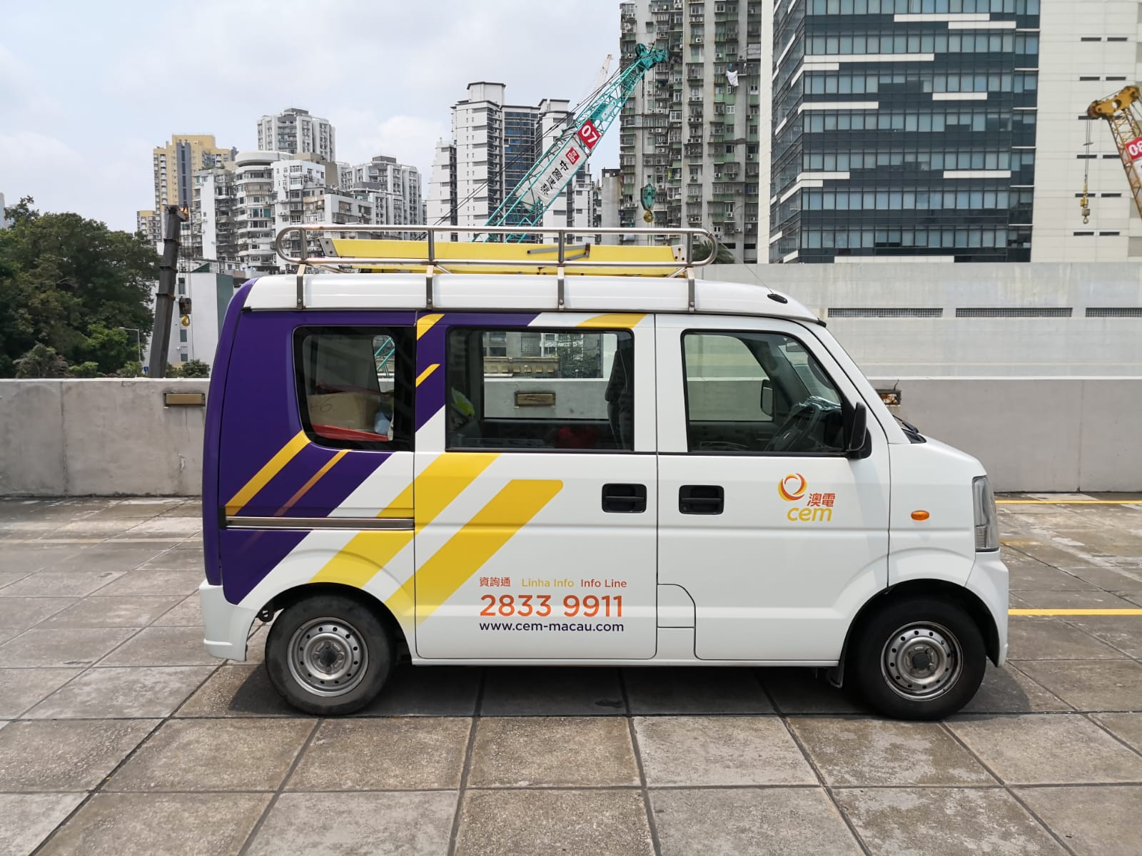 CEM vehicle, Macau